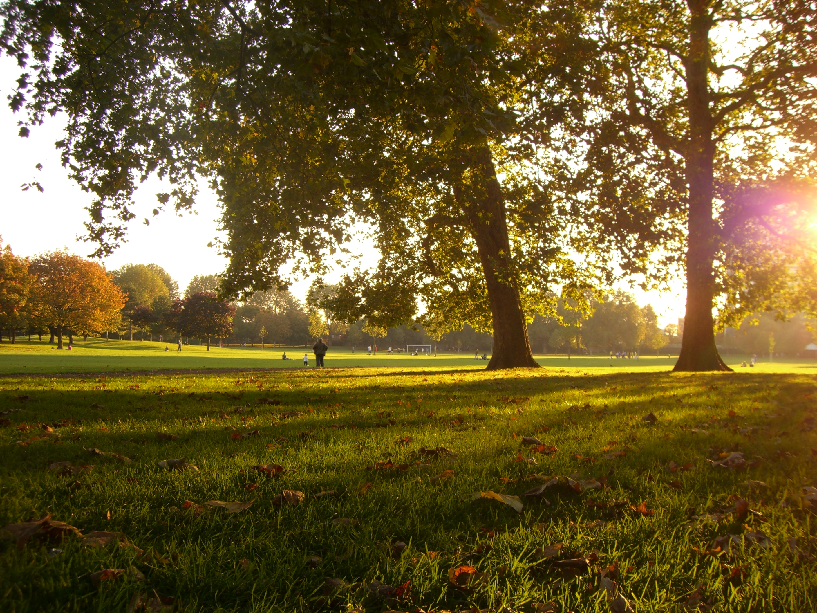 Multi-use green next to running track.